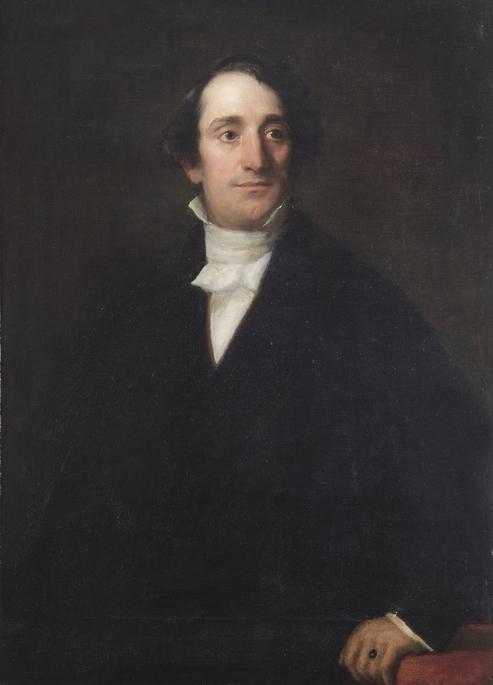 Portrait of George Leith Roupell (1797–1854), English physician.